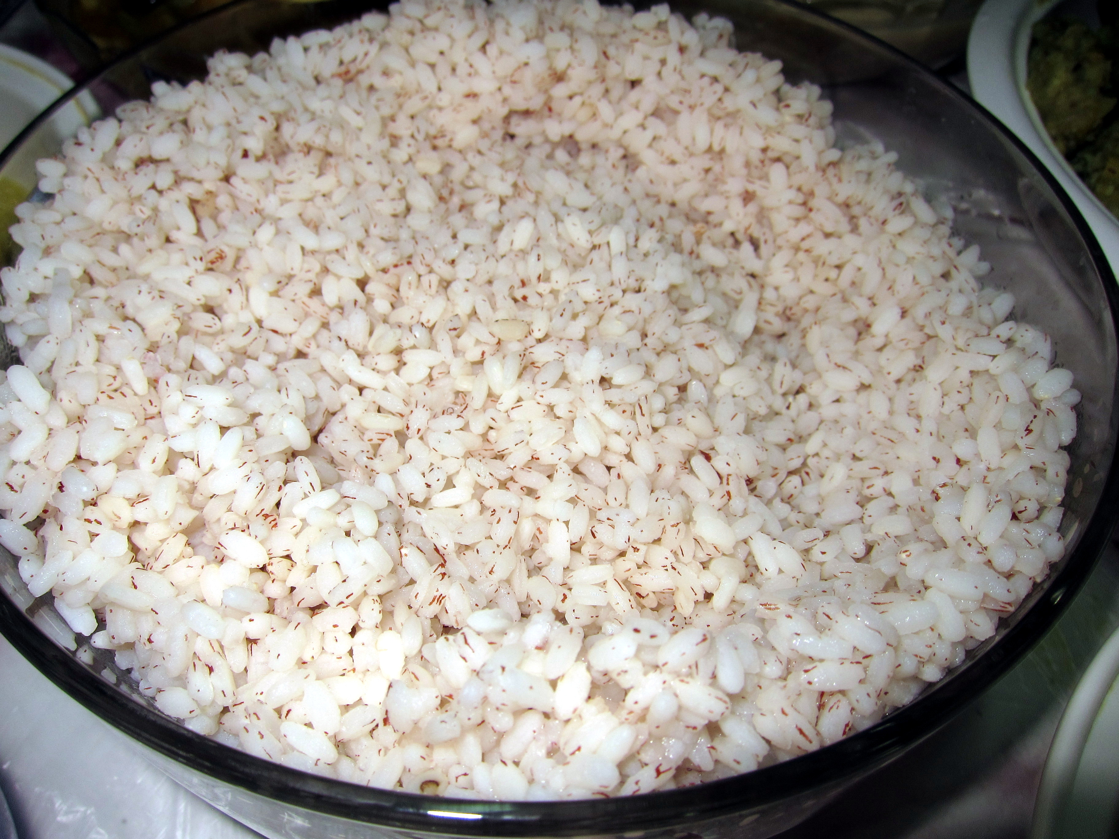 Matta Rice, Motta Rice - കുത്തരി ചോറ്, മട്ടയരി ചോറ്